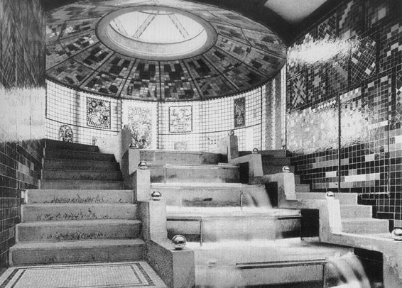 Bruno Taut: Glass Pavilion, Cologne Werkbund 1914 Exhibition. Building destroyed after exhibit